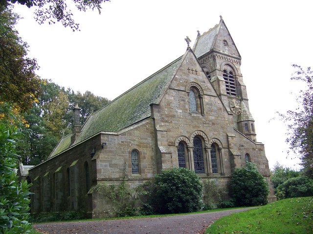 St Hilda's parish church, Egton, North Yorkshire, seen from the northwest